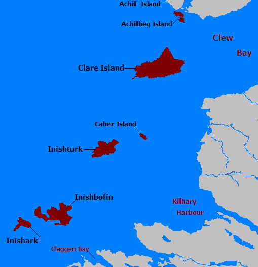 Map of Islands in County Mayo, republic of ireland